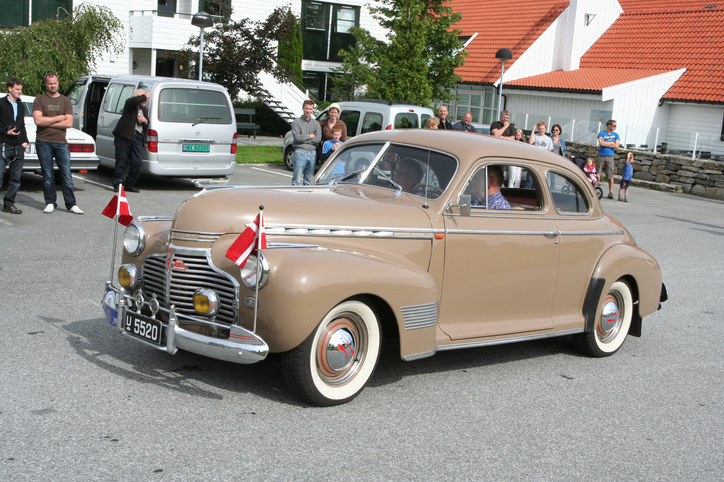 Captured at a Veteran-Car meeting on August 1, 2009 in Utstein, Norway. Inga & Arne were the owners at the time.